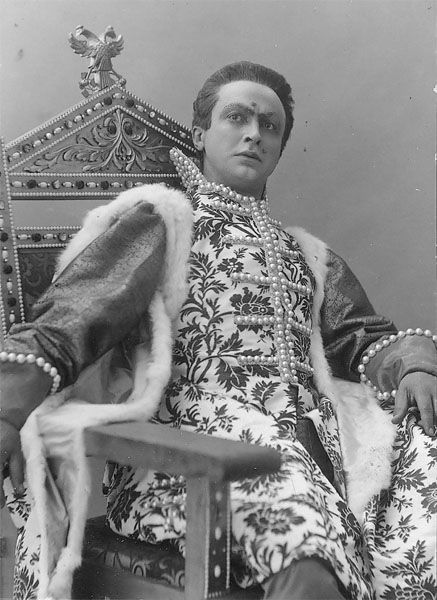 Alexander Ostuzhev as False Dmitry I, August 1909.